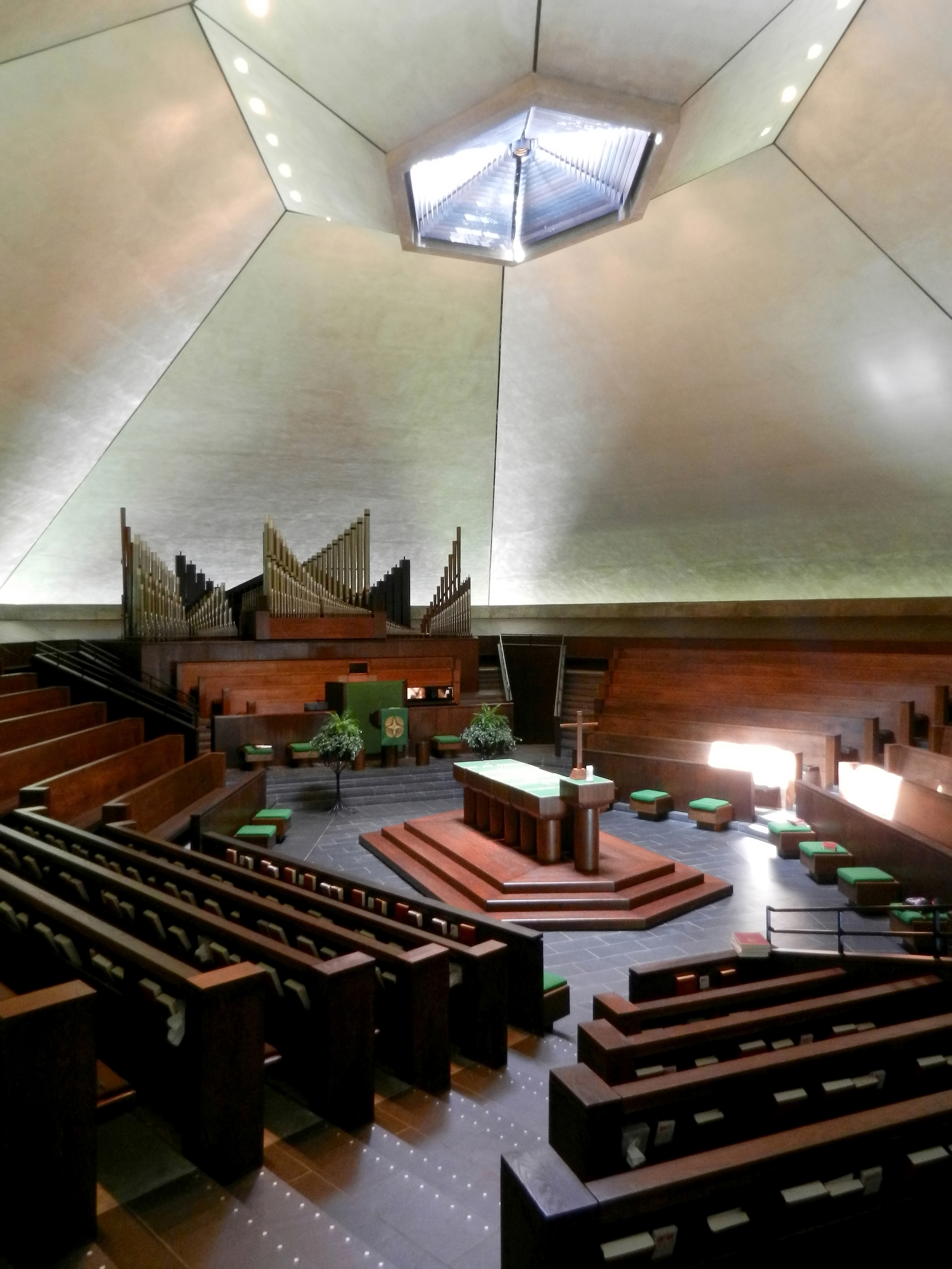 This is an interior view of the sanctuary of North Christian Church, Columbus, Indiana.